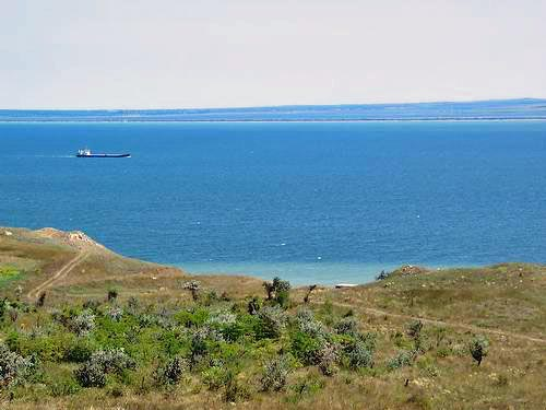 Photo of the Kerch Strait (taken August 8, 2003 by Clipper).